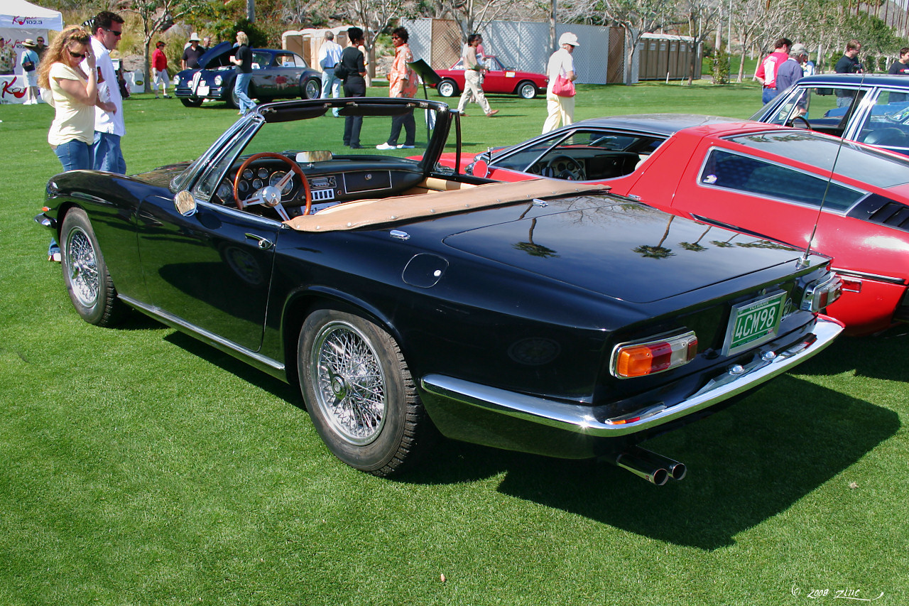 1965 Maserati Mistral Spyder, rear three quarters. 2008 Desert Classic Concours d'Elegance in Palm Springs, California.